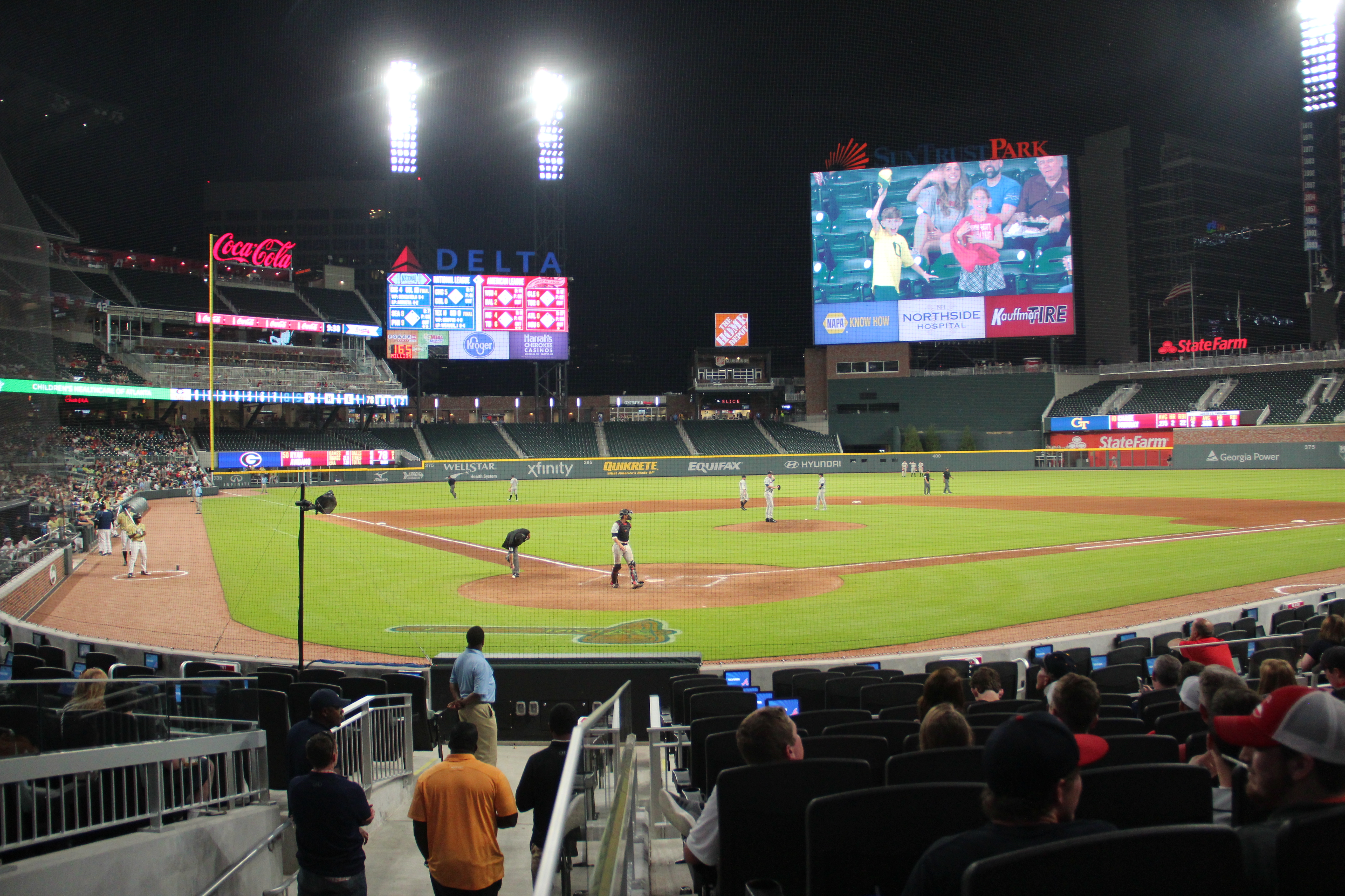 View behind home plate at SunTrust Park